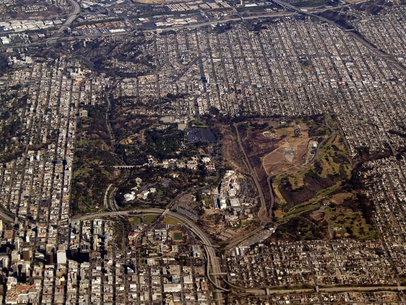 Aerial photograph of Balboa Park and surrounding neighborhoods, in San Diego, Southern California. Urban public park, and former World's Fair site twice. Taken from a Boeing 737 by Phil Konstantin. Please acknowledge "Phil Konstantin" as the creator of this photograph.